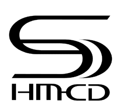 SHM-CD logo